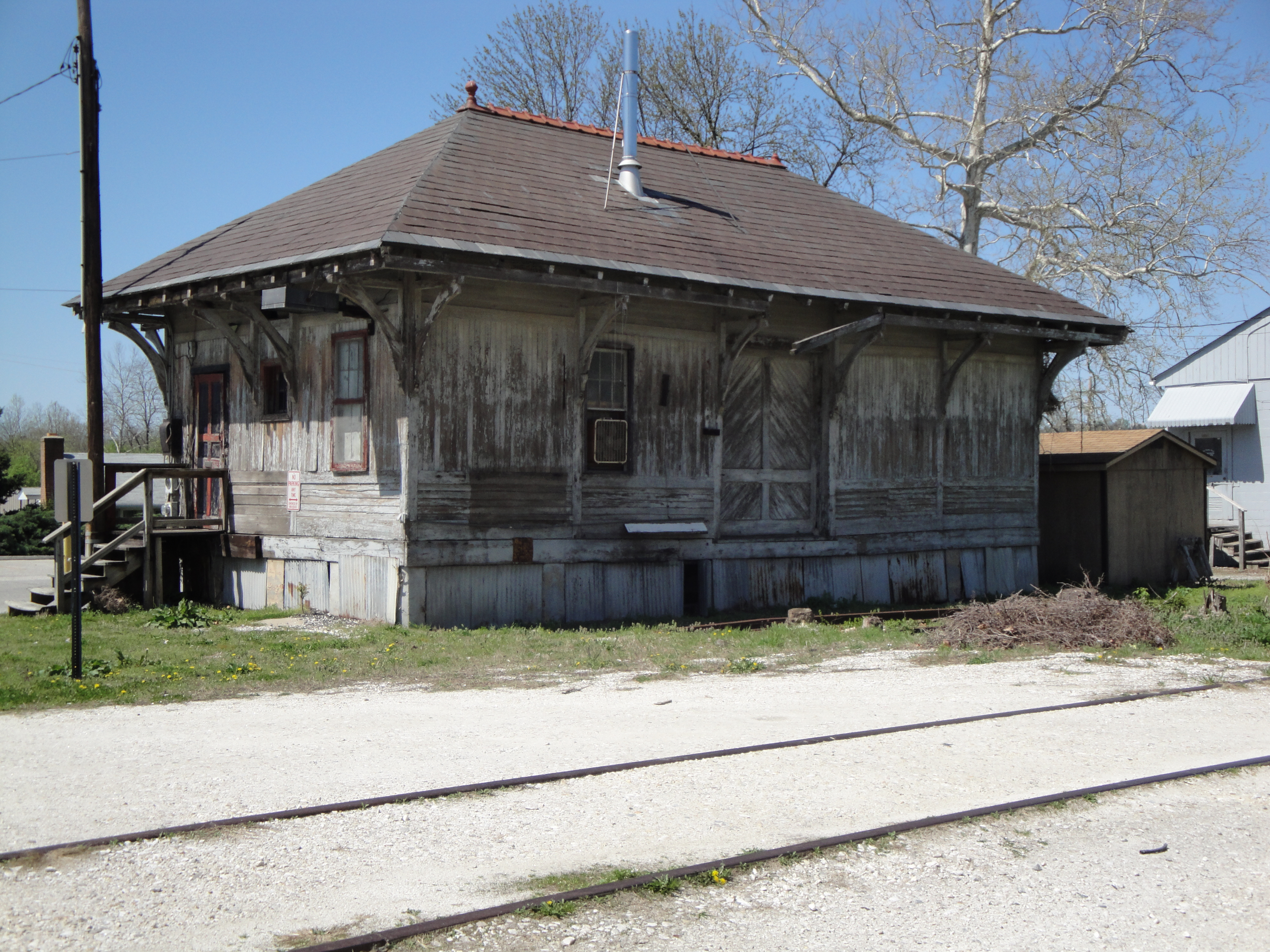 View of former Northern Central Railway freight station at Cockeysville, Maryland. Built in 1892.